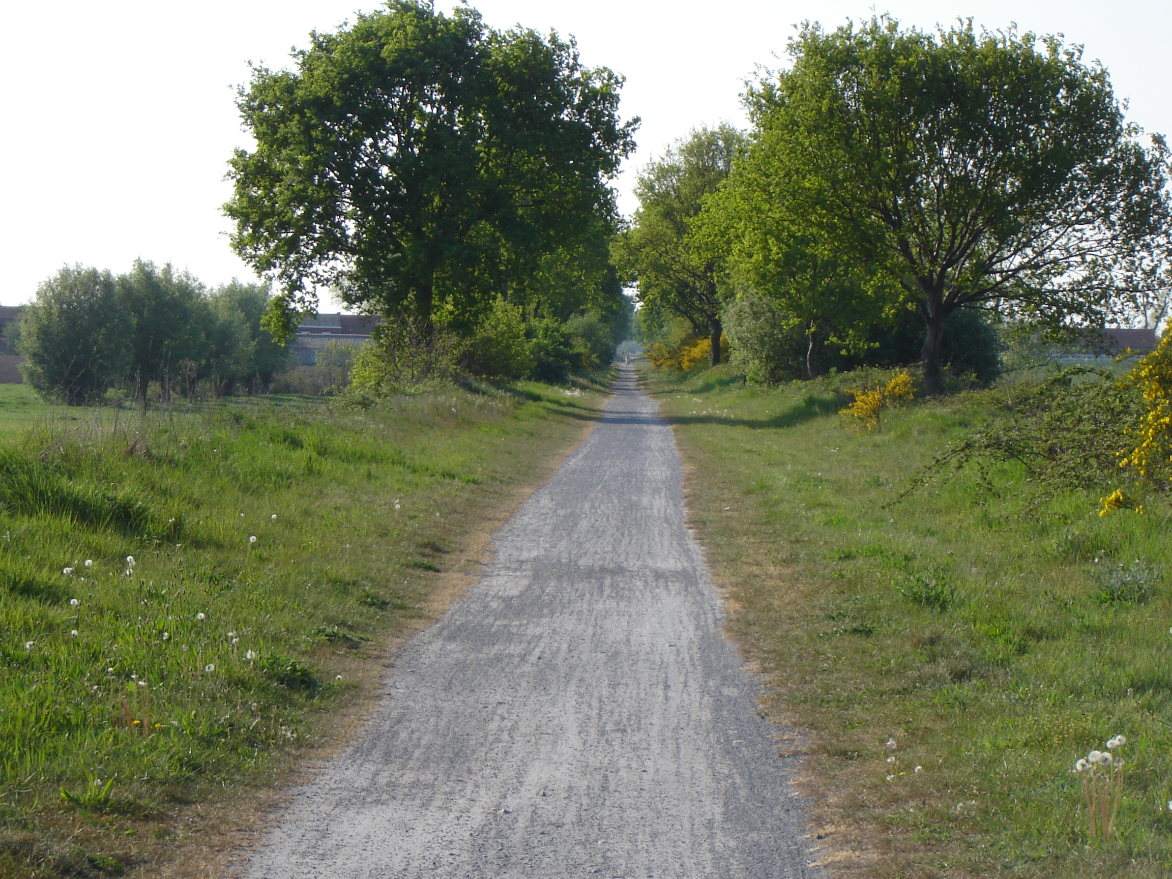 Cycleway Groene 62 in Wijnendale, direction of Ichtegem. Wijnendale, Torhout, West Flanders, Belgium